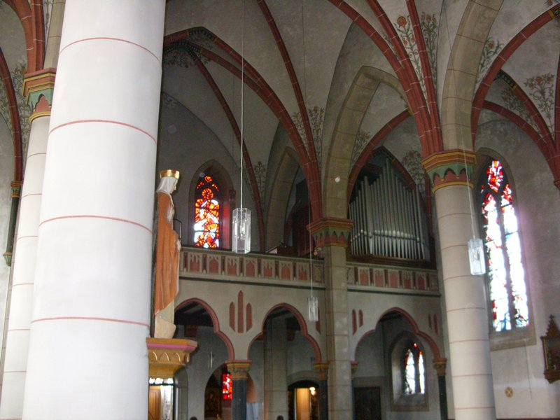 organ sotzweiler